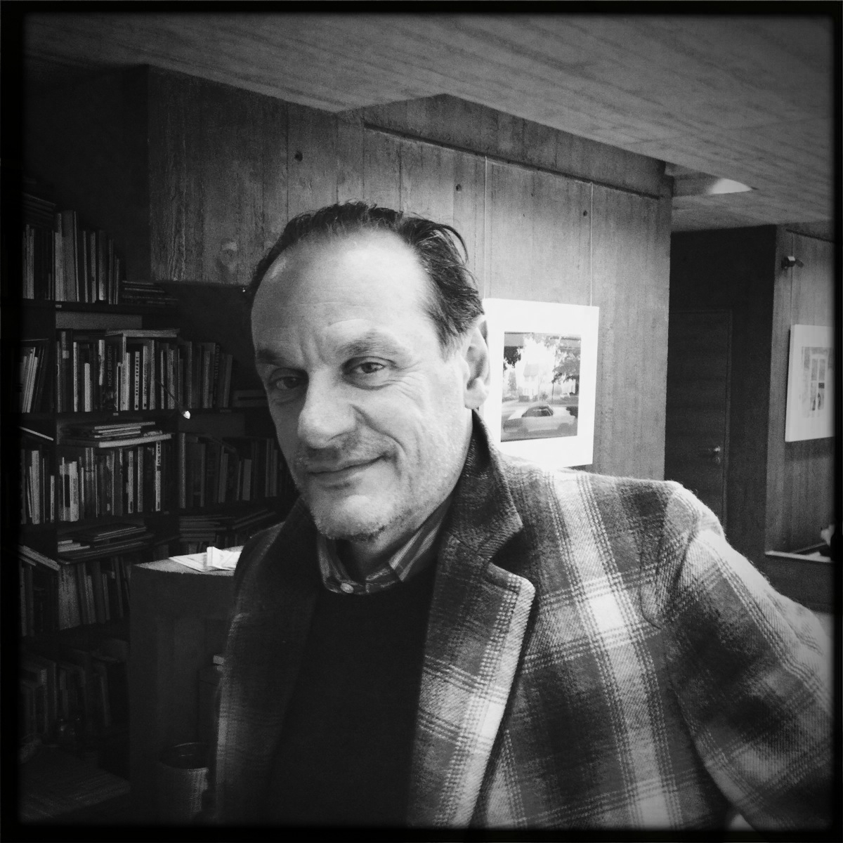 A hipstamatic portrait of Luxembourg painter Roland Schauls by François Besch